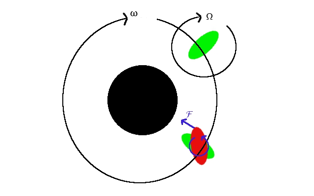 Description of Tidal lock